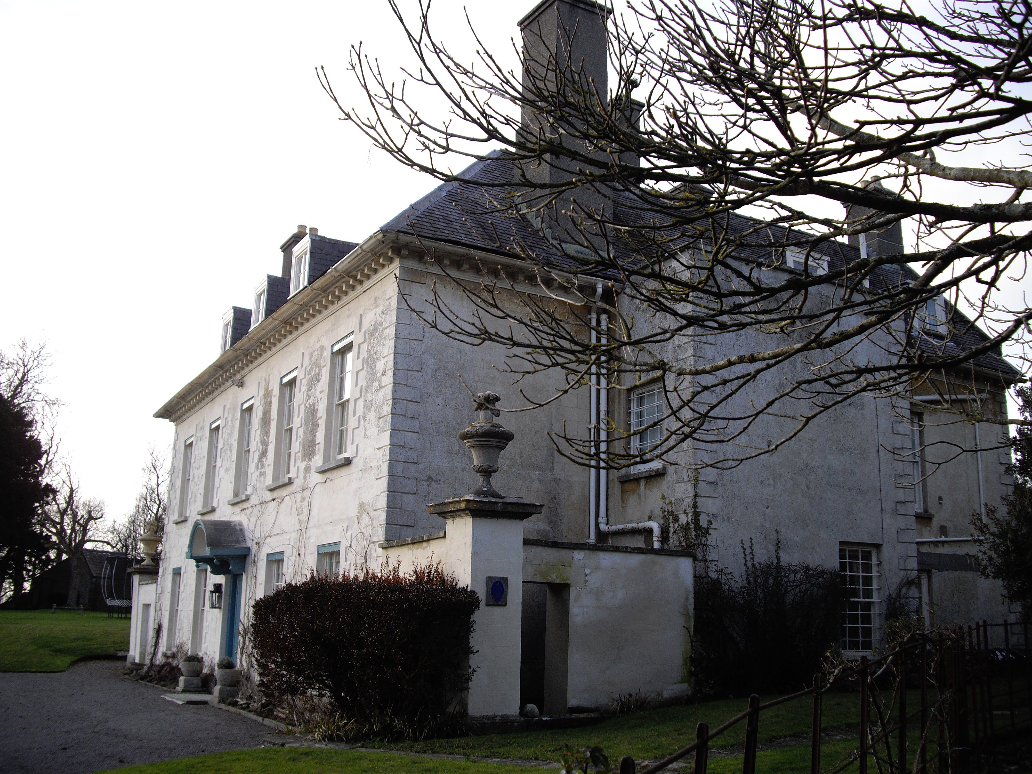 Gileston Manor, Vale of Glamorgan Wales, a manor house dating from the late medieval period with 18th century remodelling. View looking from the southeast.